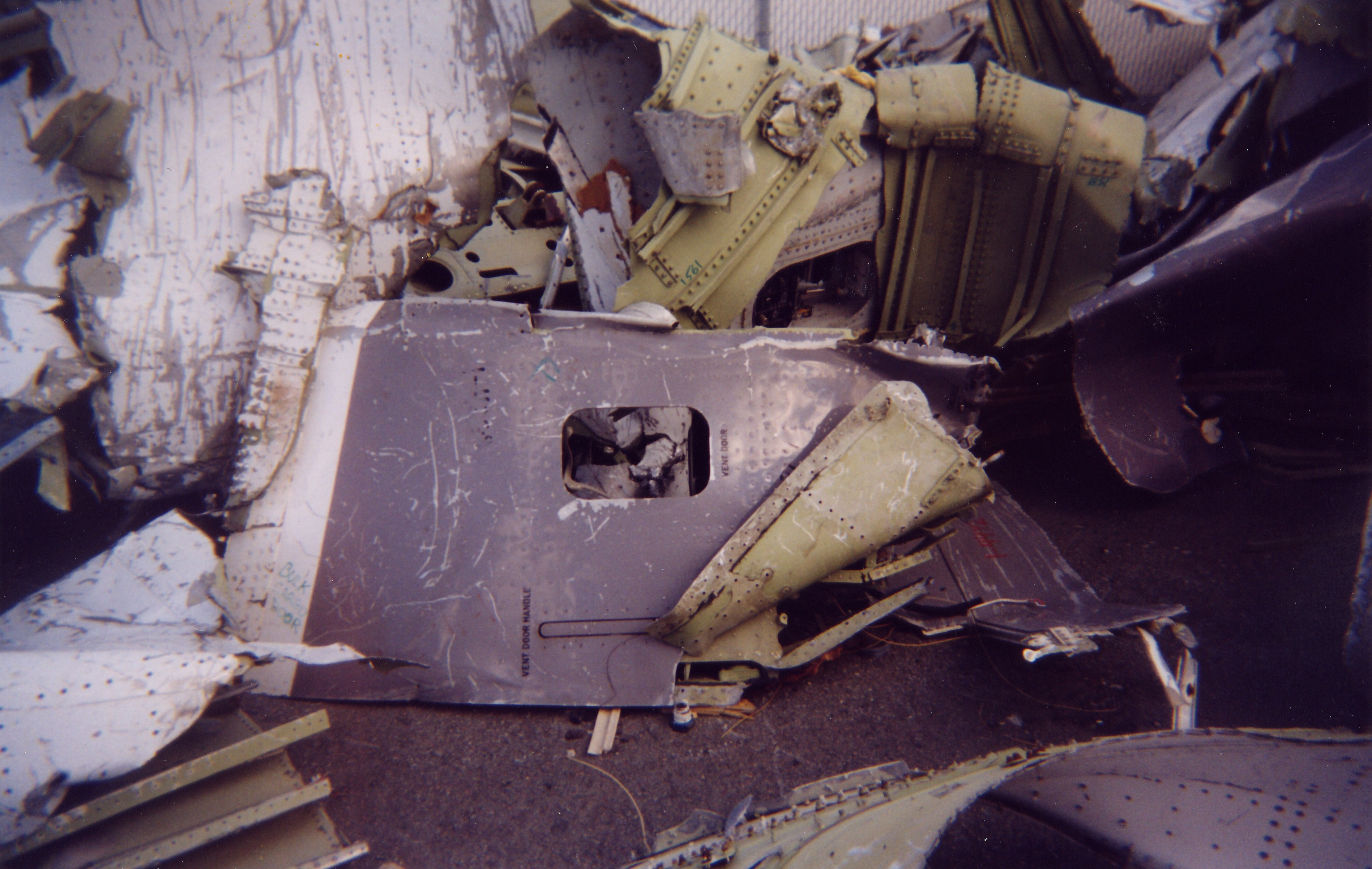 Debris recovered from Swissair 111 crash. The center door object is a cargo door. The material had curled on impact.